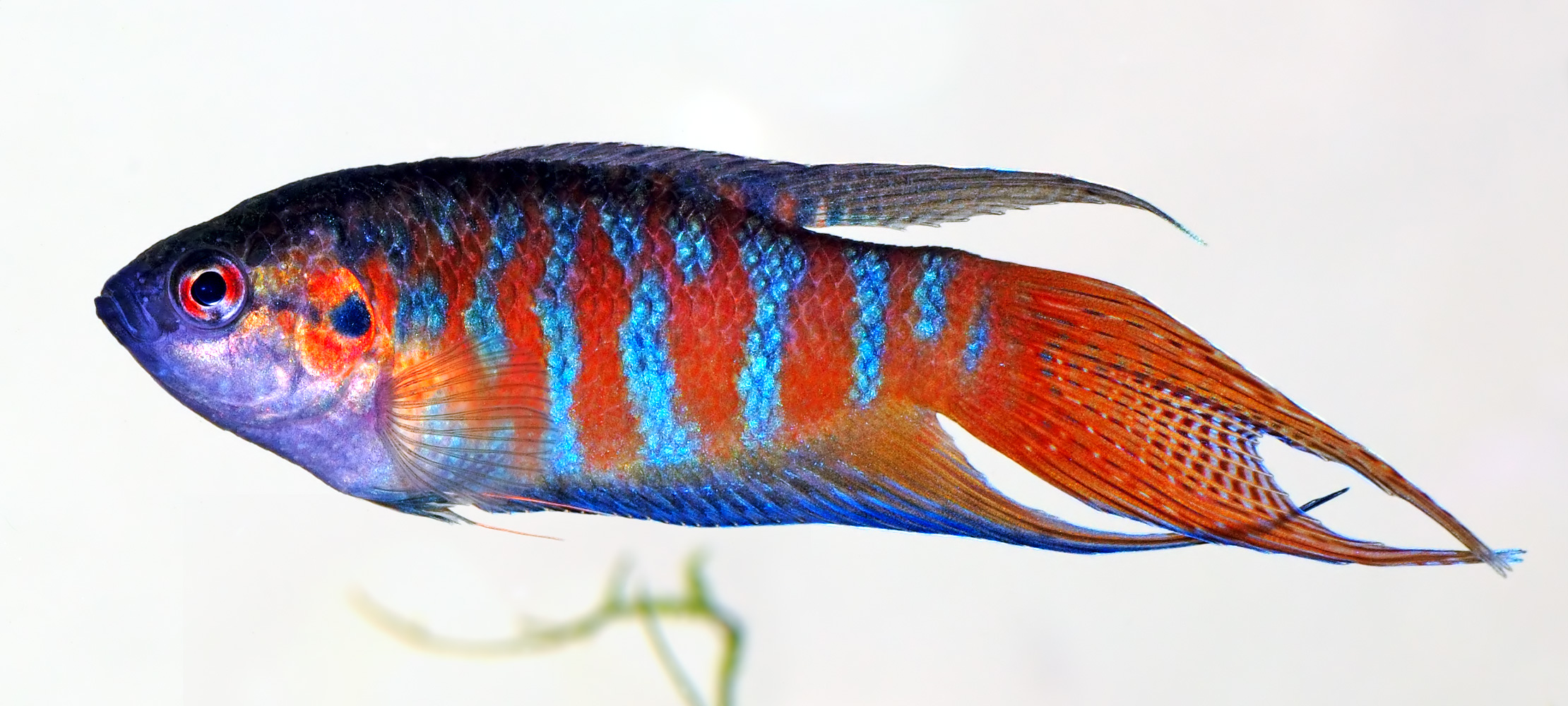 This image shows a Paradise fish (Macropodus opercularis).